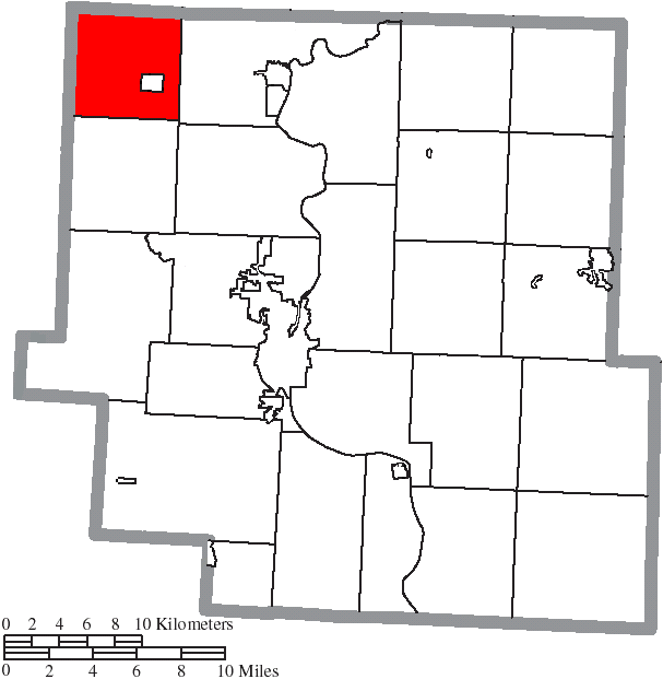 Map of the municipal and township boundaries of Muskingum County, Ohio, United States, as of the 2000 census, with the location of Jackson Township highlighted. Township borders are shown only in unincorporated areas in order to differentiate incorporated and unincorporated areas more clearly.